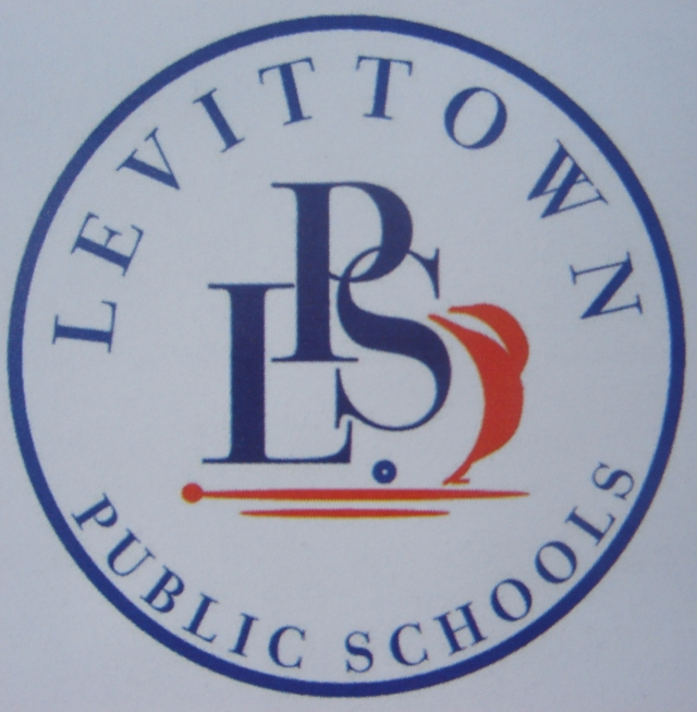 Levittown Union Free School District Logo.